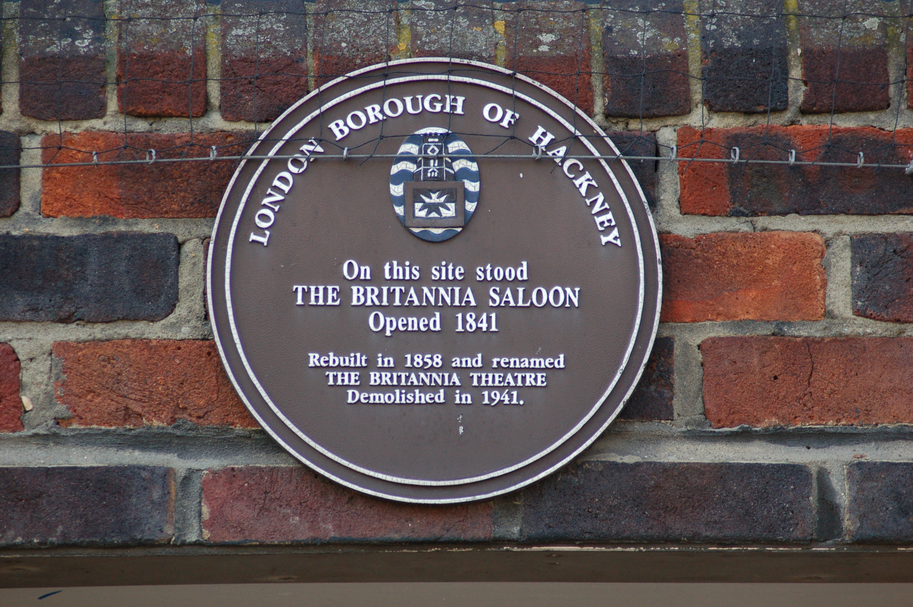 Site of the former Britannia Theatre (Hoxton Street) I dunnit, use freely, but pls attribute